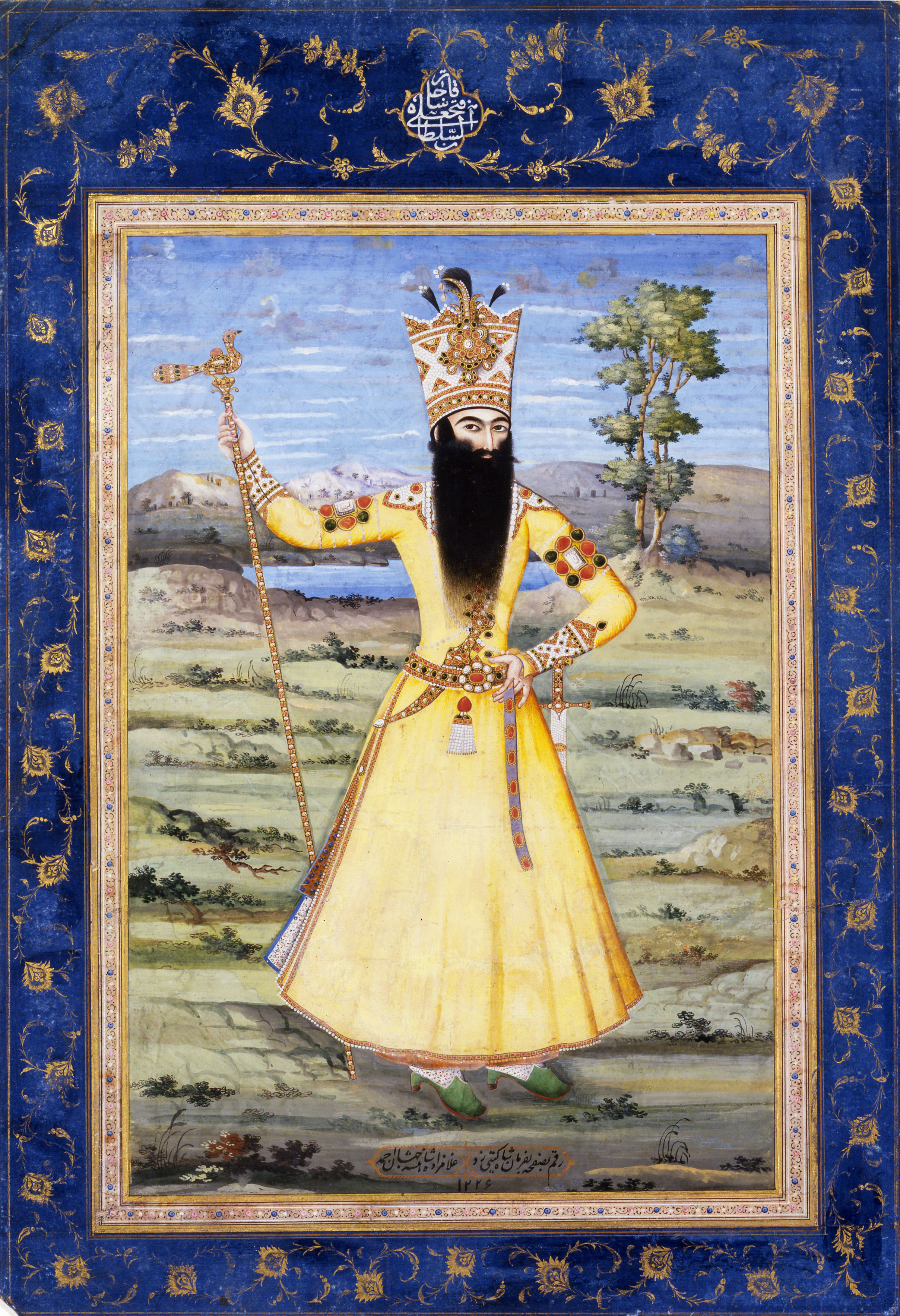 Fath-Ali Shah Qajar (5 September 1772 – 23 October 1834) was the second Qajar king (Shah) of Persia, reigning from 17 June 1797 until his death. This miniature is part of The David Collection, in Copenhagen.